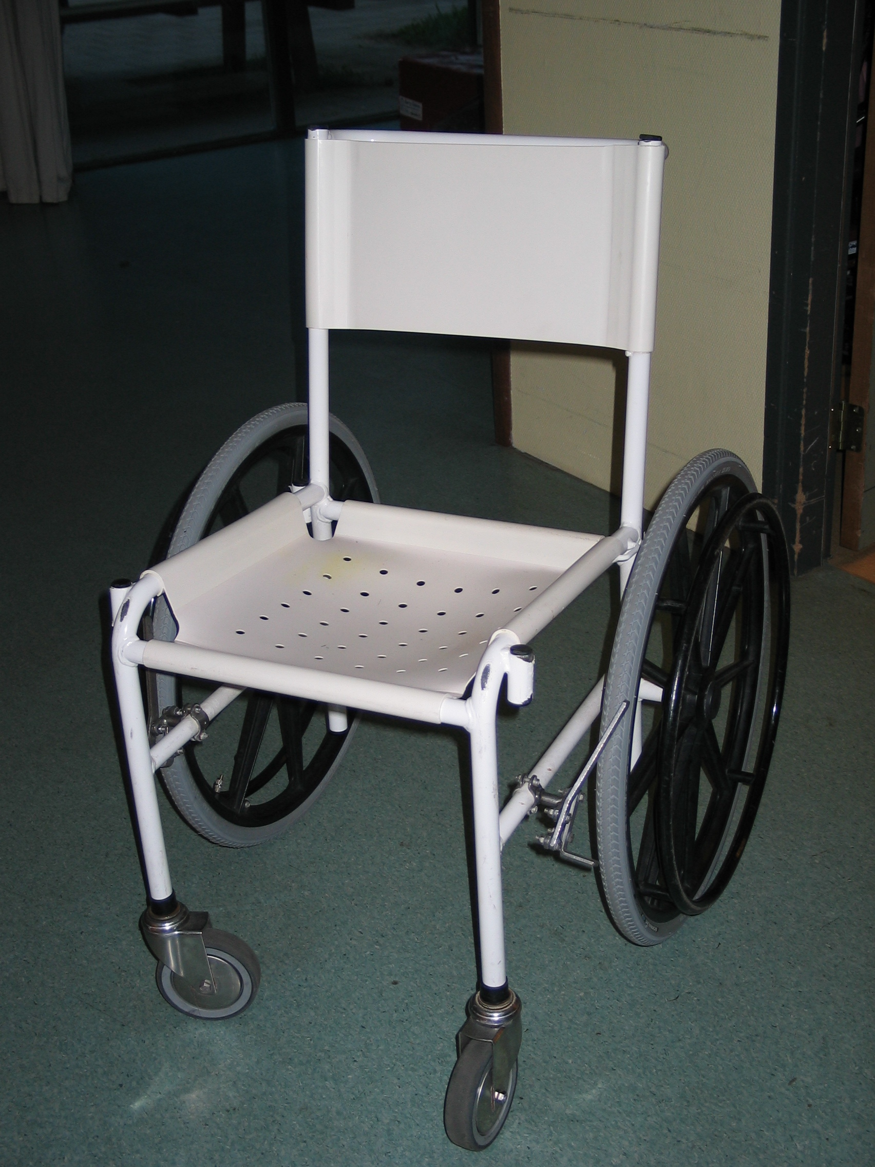 Shower chair (chair for under the shower)